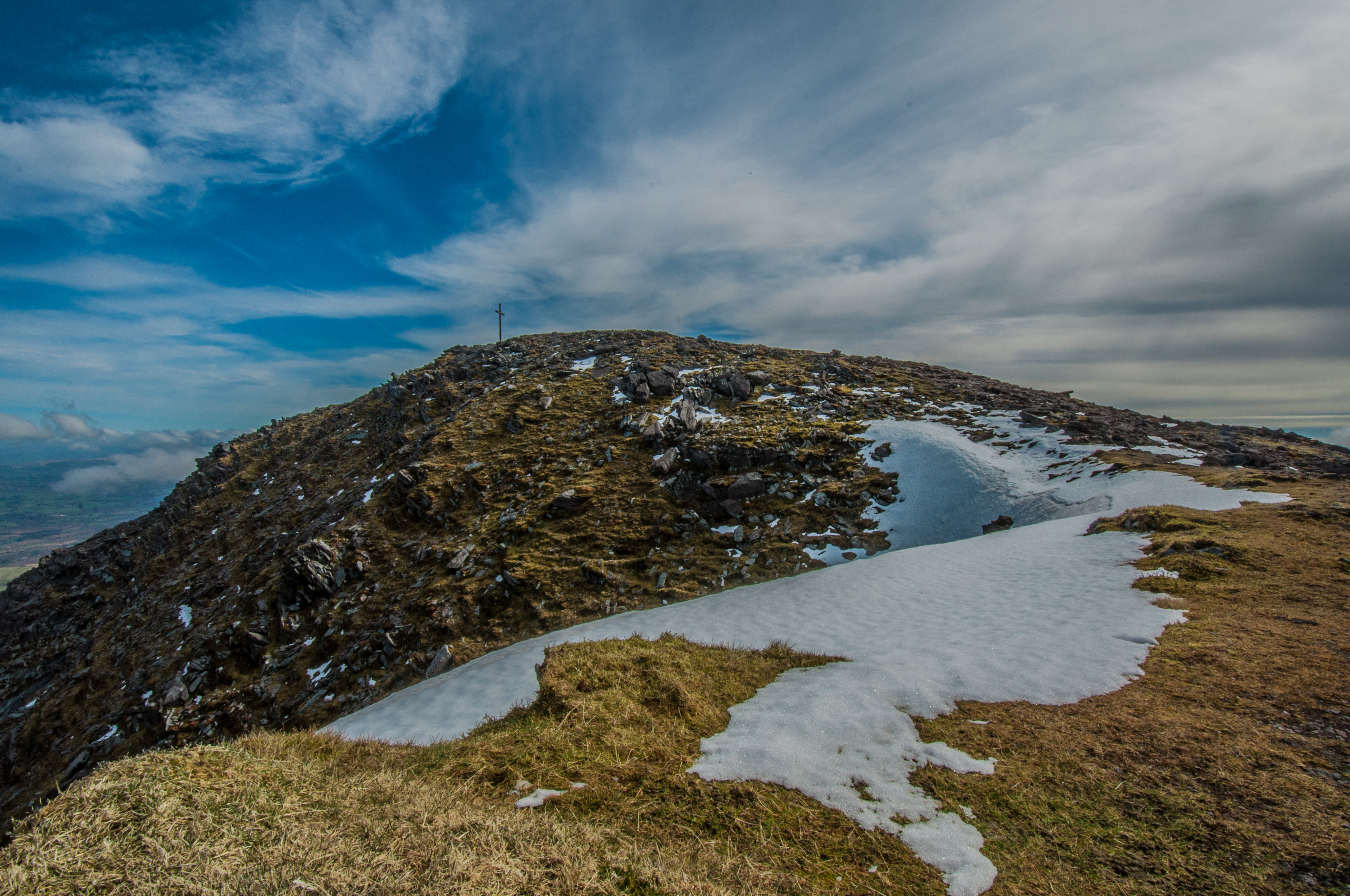 This is an image of the Biosphere Reserve: Killarney National Park